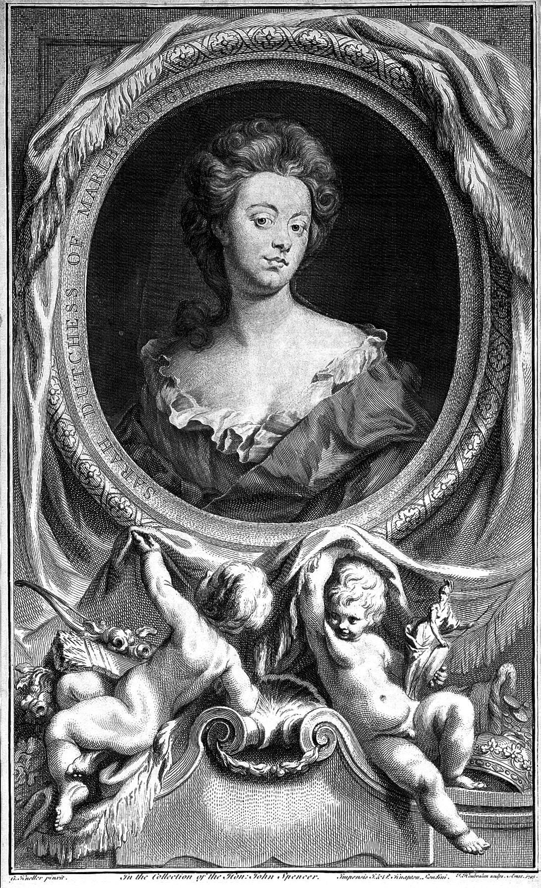 Portrait of Sarah Churchill Iconographic Collections Keywords: Sarah Jennings Churchill Marlborough; Godfrey Kneller; Jacobus Houbraken